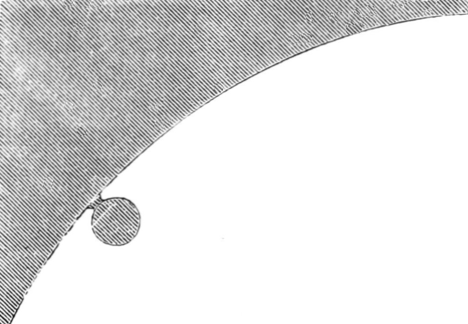 Portion of the Sun at first internal contact of Venus